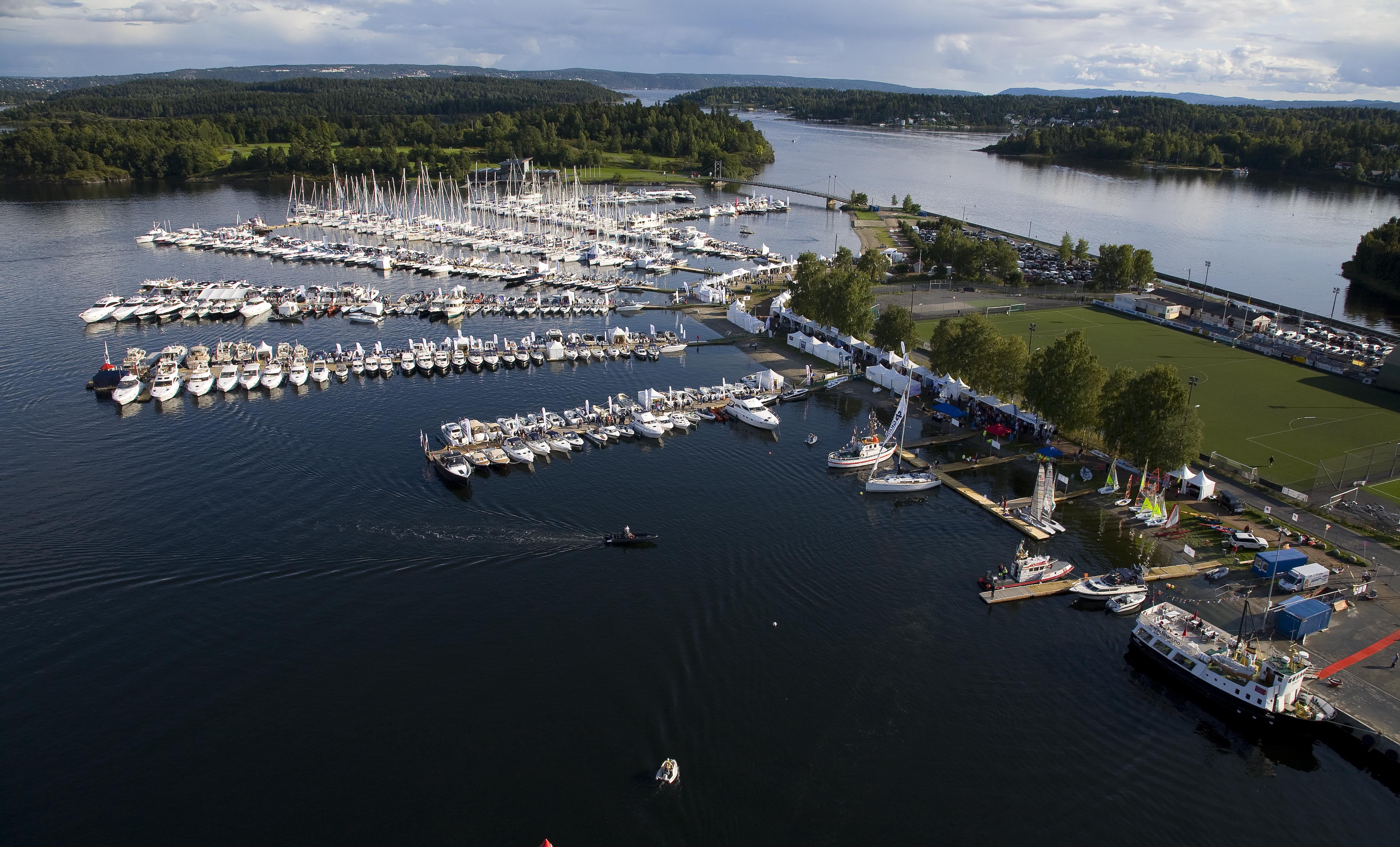 Overview of the boat exhibition "Båter i sjøen" in Norway.